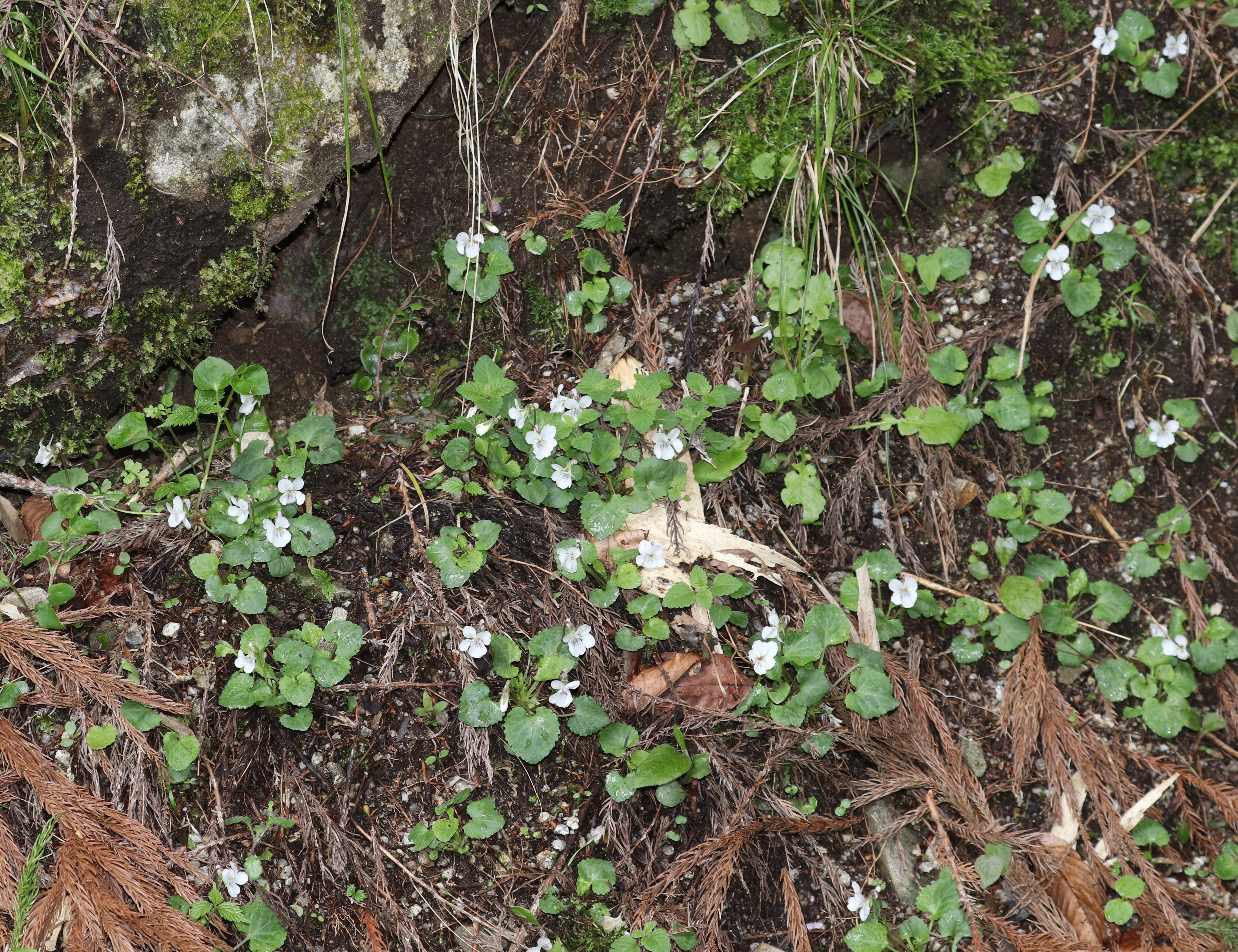 Viola keiskei in Mount Nabekura, Ibigawa, Gifu Prefecture, Japan.